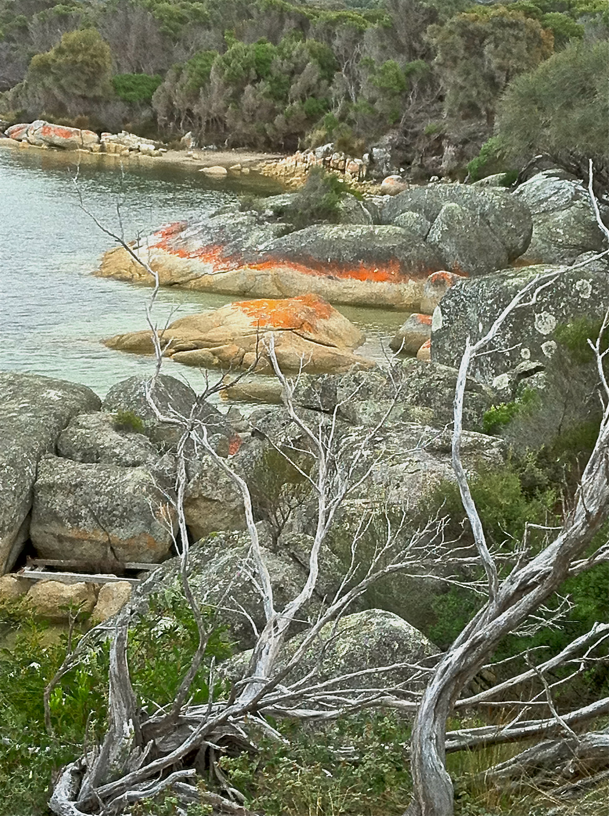 looking west - northern shore of the North East River, Flinders Island, as it curves East into the sea.